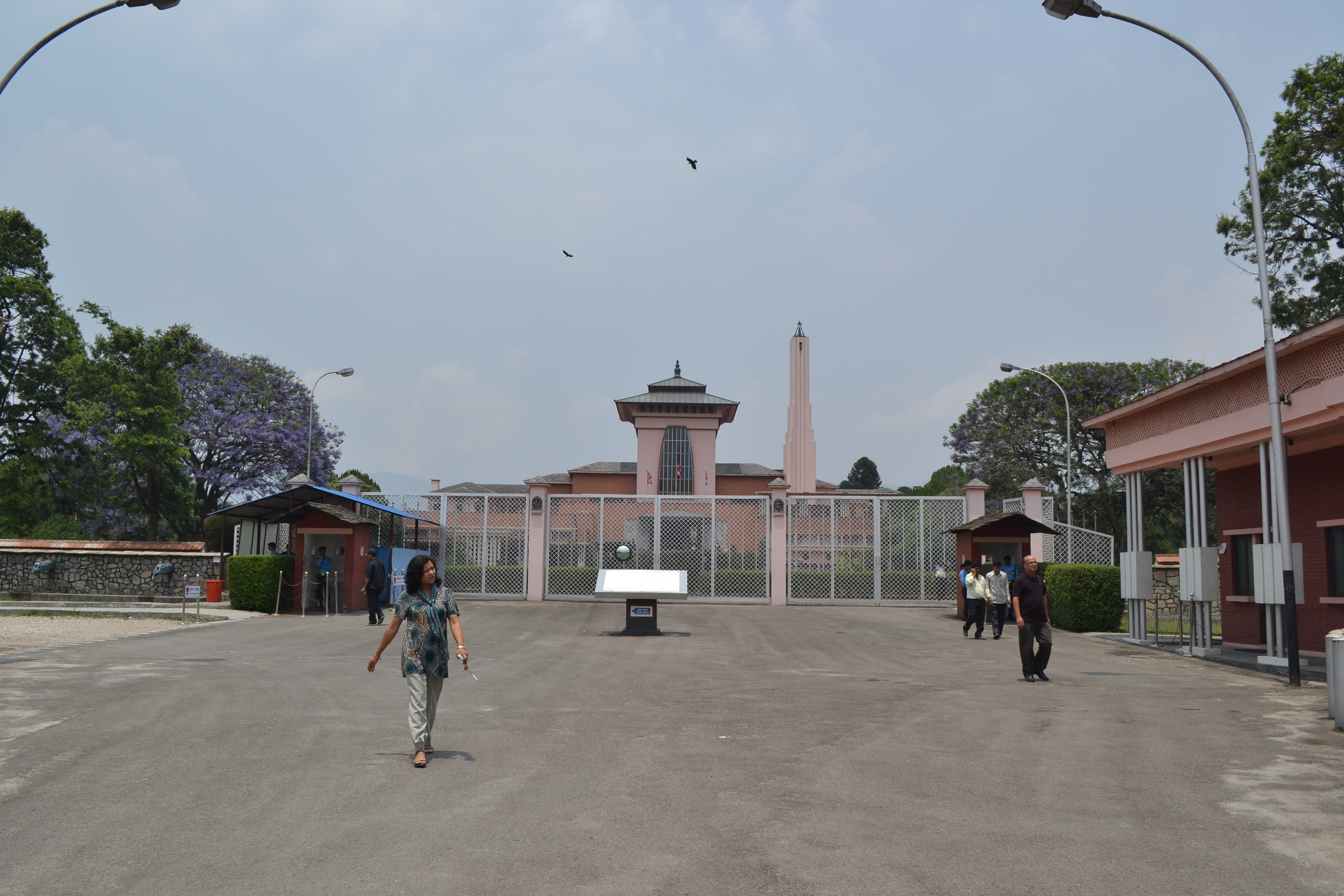 Royal Palace of Nepal.